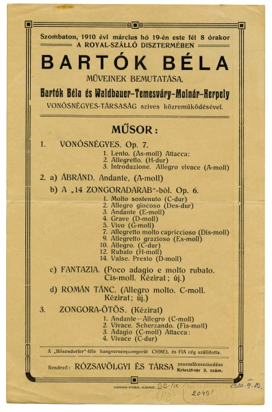 The poster of 1910 concert of Waldbauer-Kerpely string quartet with Béla Bartok playing the music of the latter